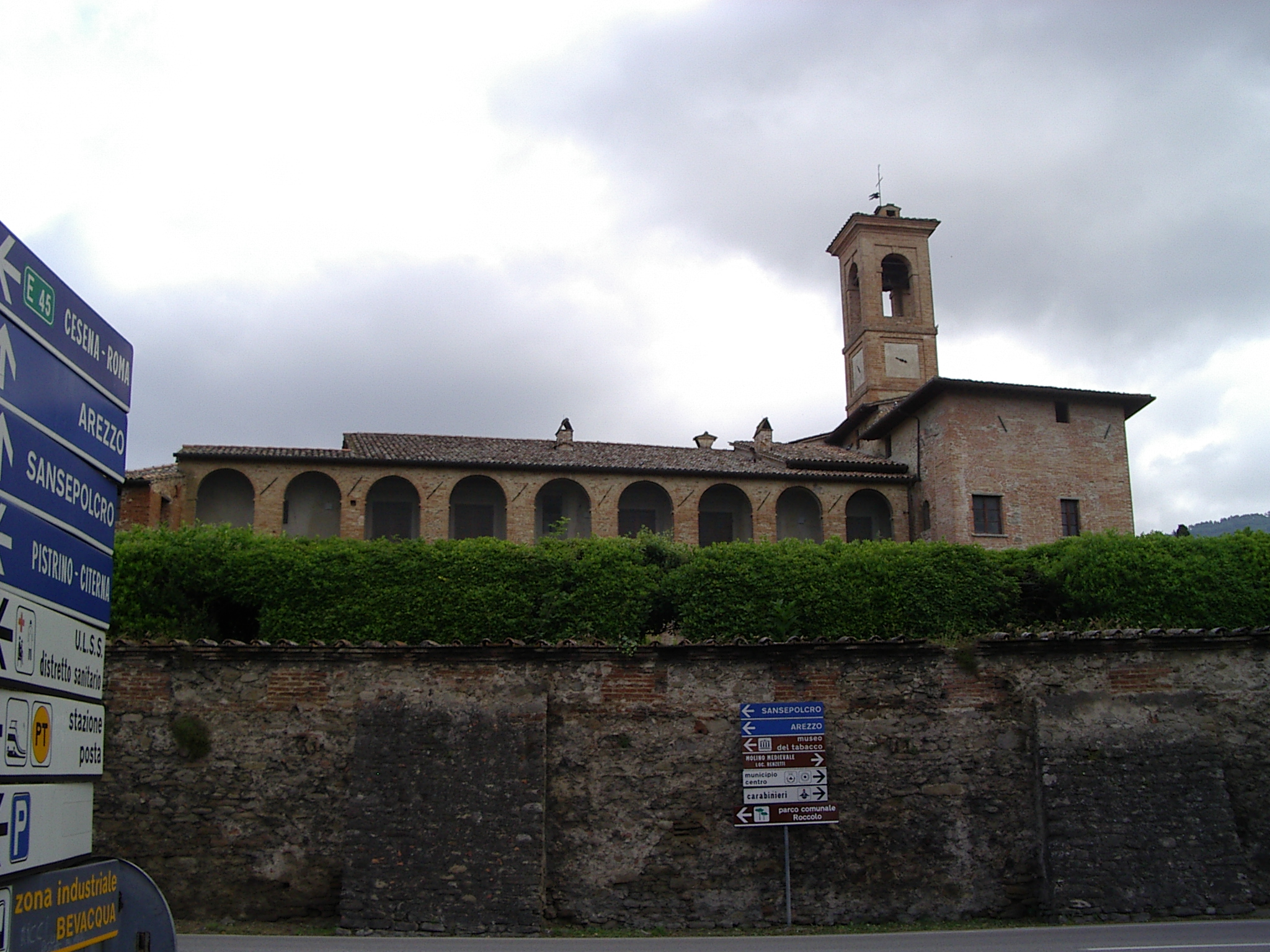 Bufalini Castle, San Giustino, Perugia, Italy